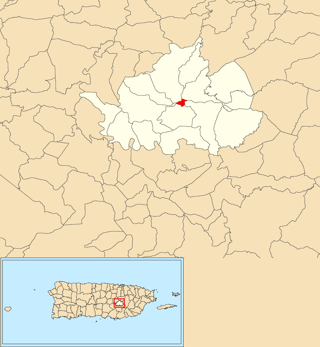 Cidra barrio-pueblo, Cidra, Puerto Rico locator map